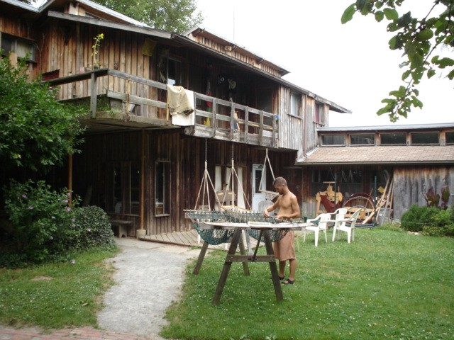 Hammock inweaving at Twin Oaks Community, Louisa County, Virginia, USA.